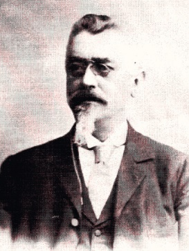 Wood expert, discovered the spring of Krondorf mineral water in 1876.